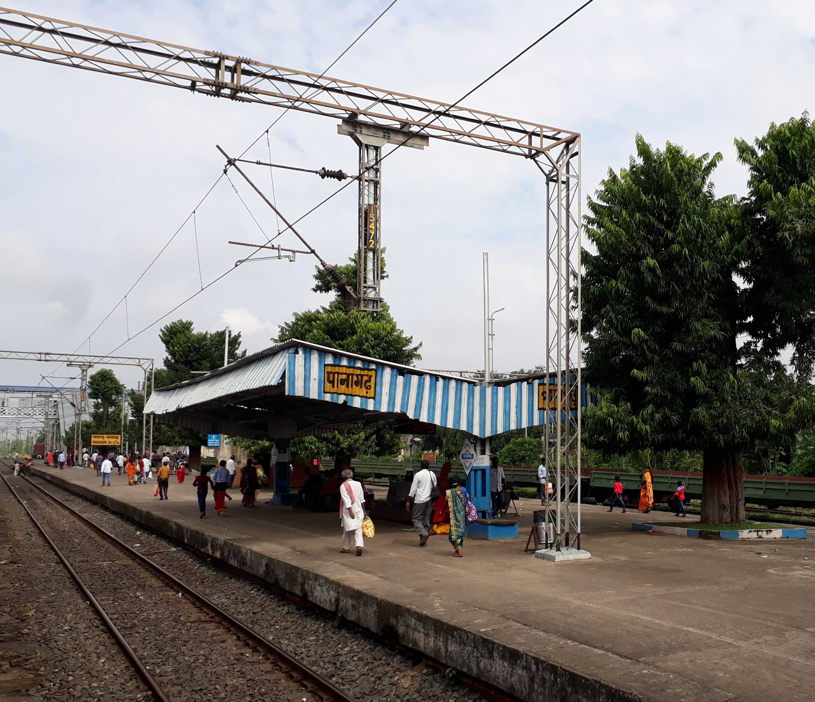 Panagarh Railway Station in Burdwan Asansole route